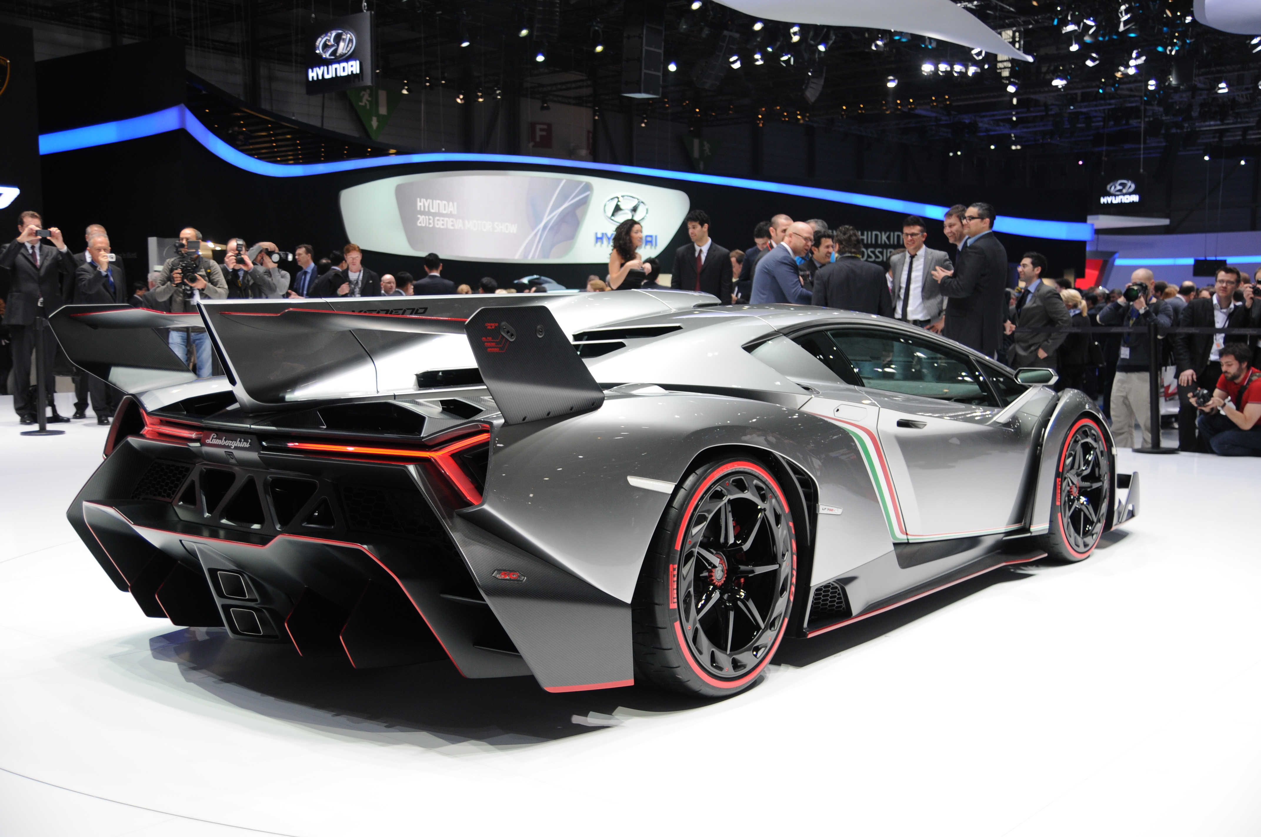 Geneva Motor Show 2013 (photos taken on the first press day)